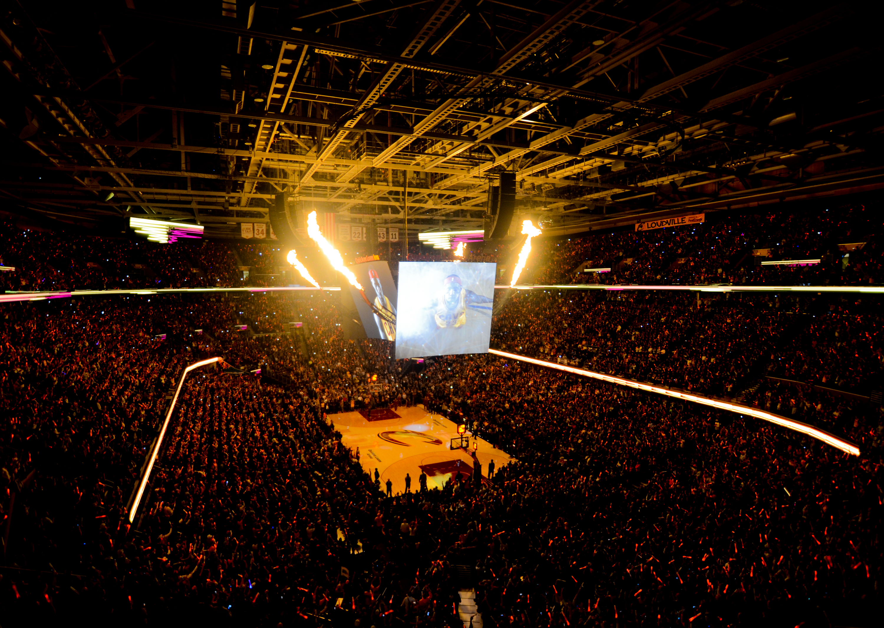 Quicken Loans Arena's newly-installed scoreboard in action at the 2014 Cleveland Cavaliers home opener